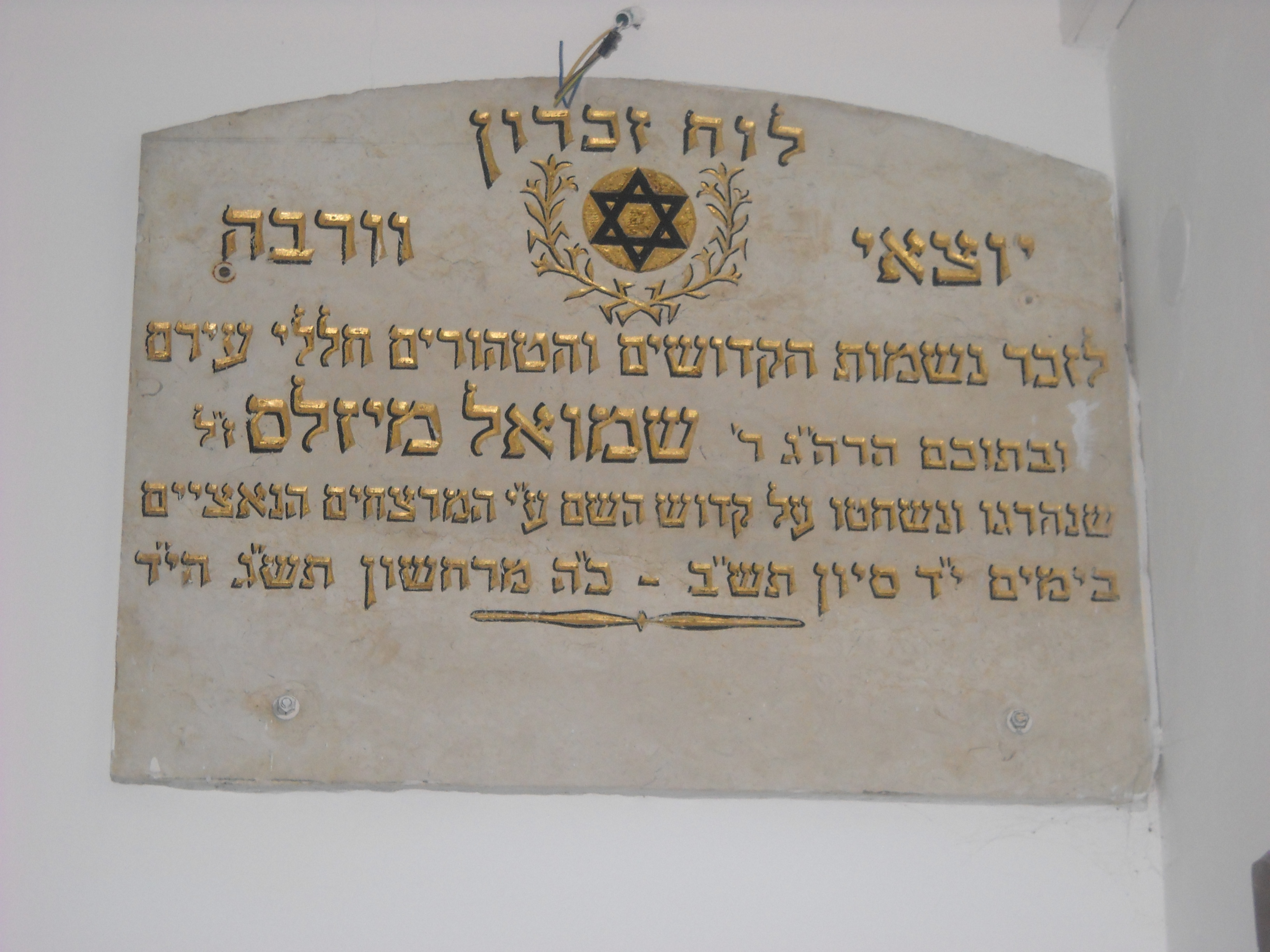 a memorial plaque to the jews murdered in Verba, ukraine in the holocaust, set in a synagogue in Afula, Israel